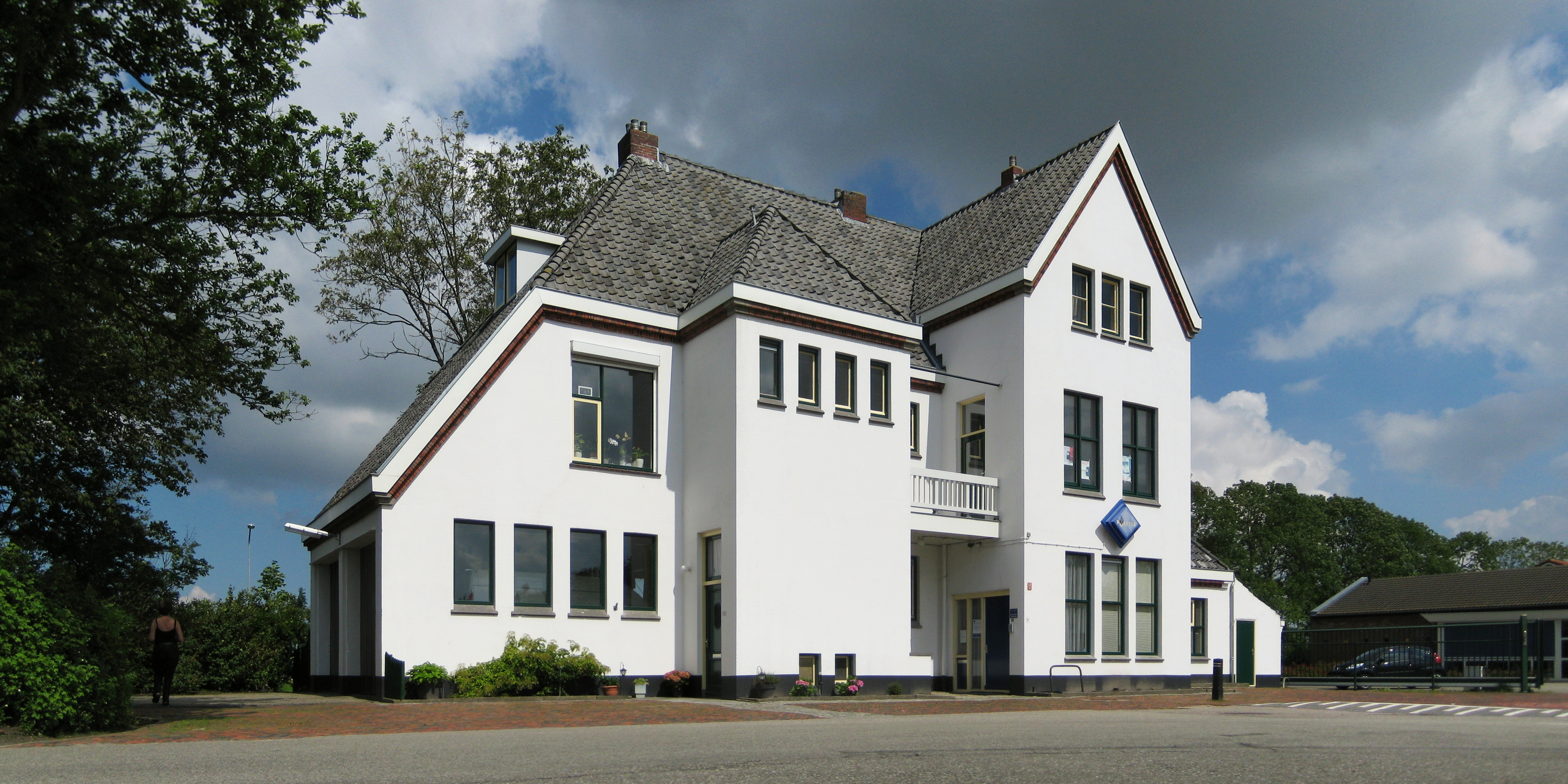 The former train station (1920) of Leens, a village in the Dutch province of Groningen.